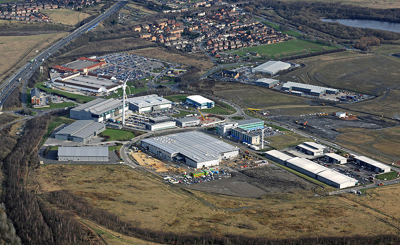 Aerial Photograph of the Advanced Manufacturing Park